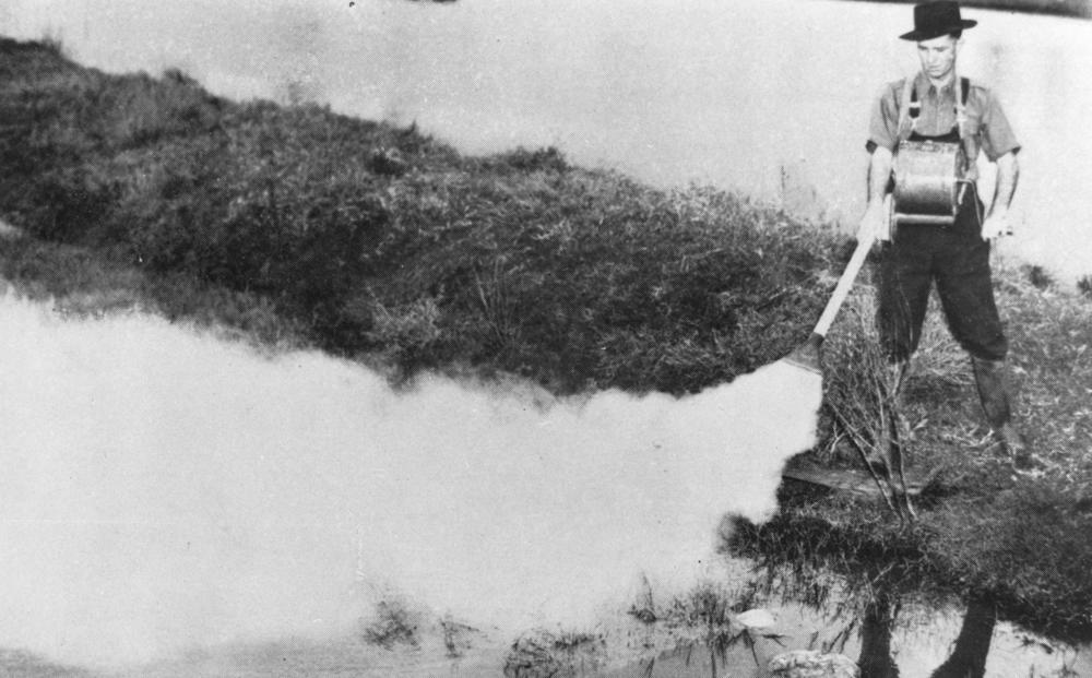 Council worker spraying for mosquitos, Brisbane, 1949 Dusting DDT (Dichloro-Diphenyl-Trichloroethane) on mosquito breeding water by using a hand operated machine. (Description supplied with photograph).